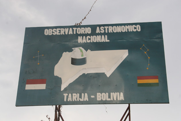 National Bolivian Observatory (Tarija)